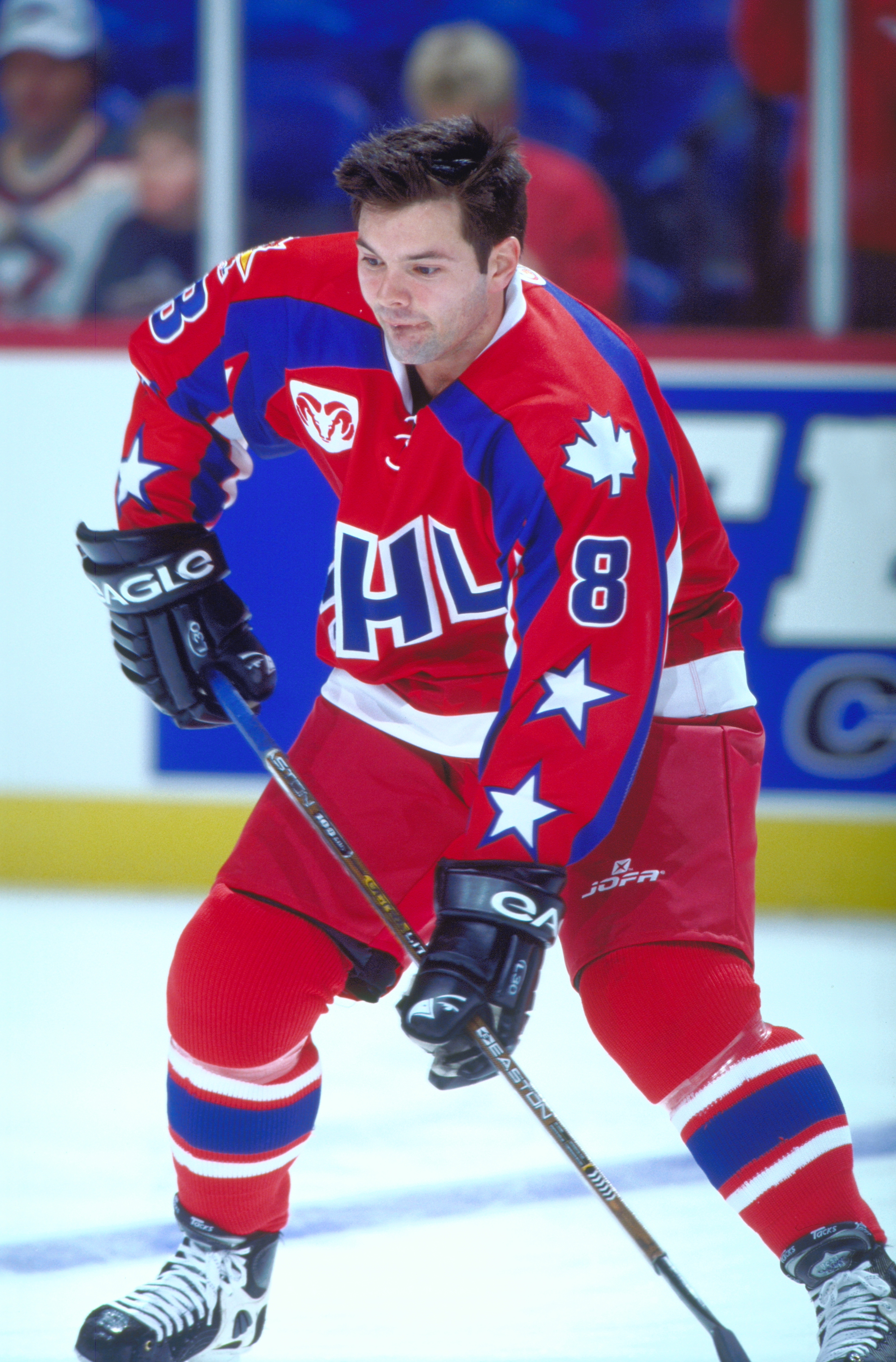 hhof0369